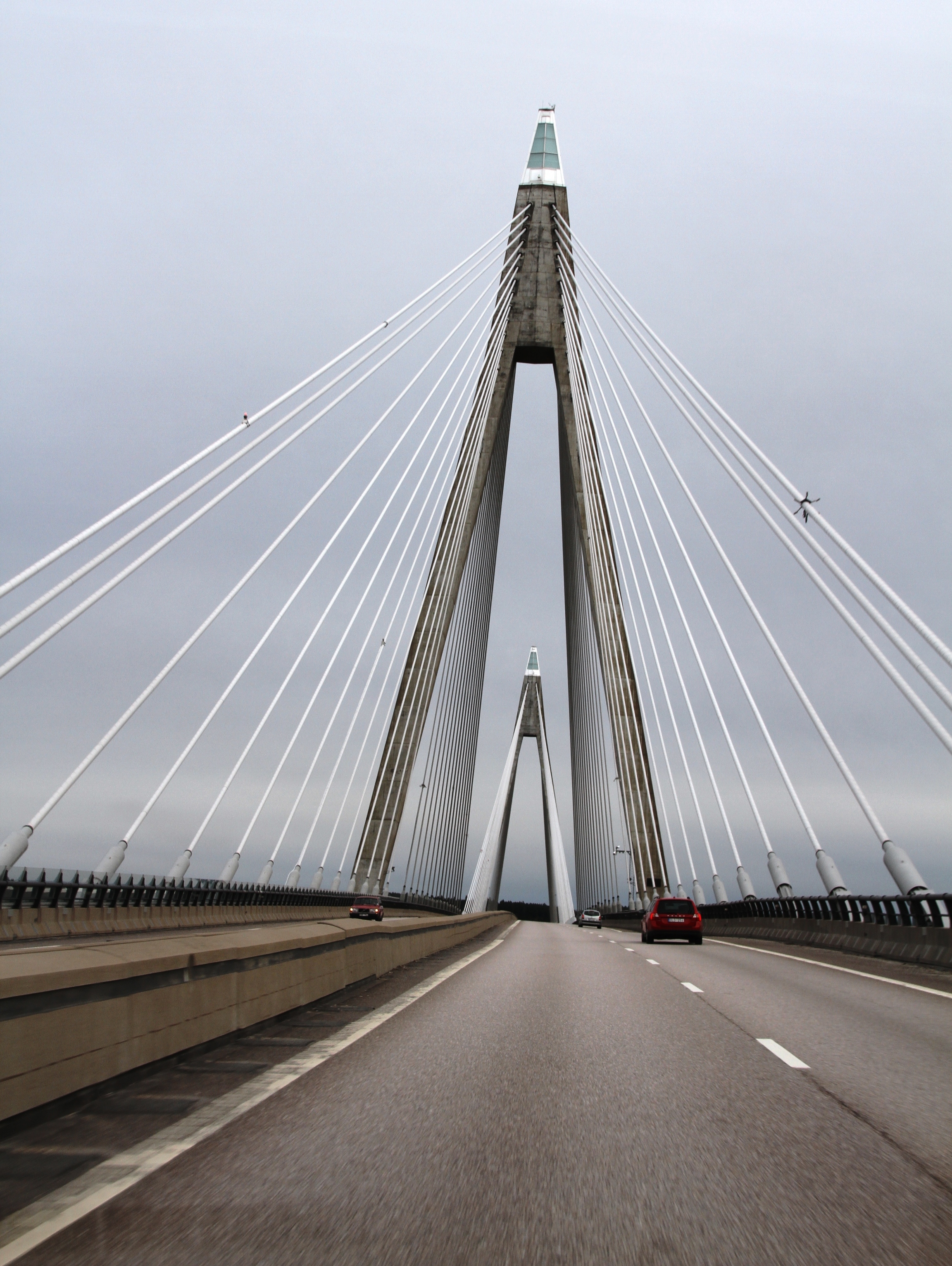 Udevalla bridge, western Sweden